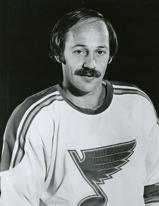 Photo of ice hockey player Fran Huck as a member of the St. Louis Blues. The item has no copyright markings on it as can be seen in the links above.